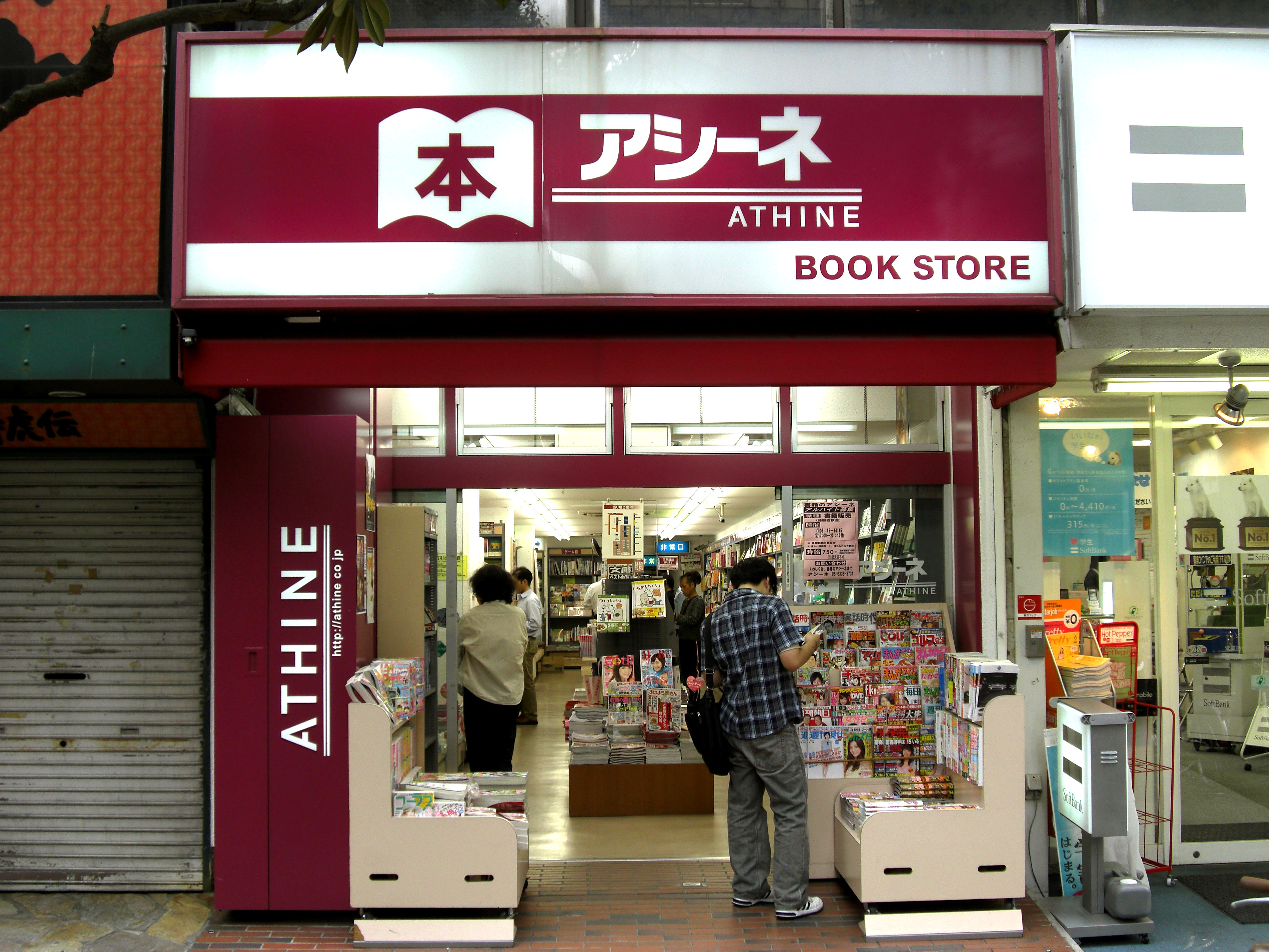 ATHINE Esaka,Toyotsucho Suita-City Osaka Japan.